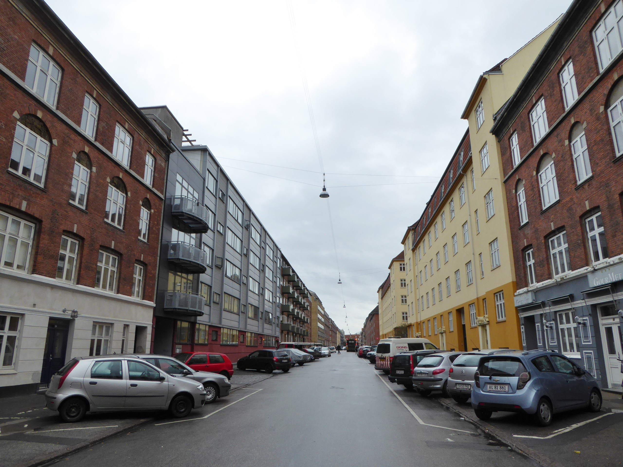 The street Hesseløgade in Østerbro in Copenhagen.